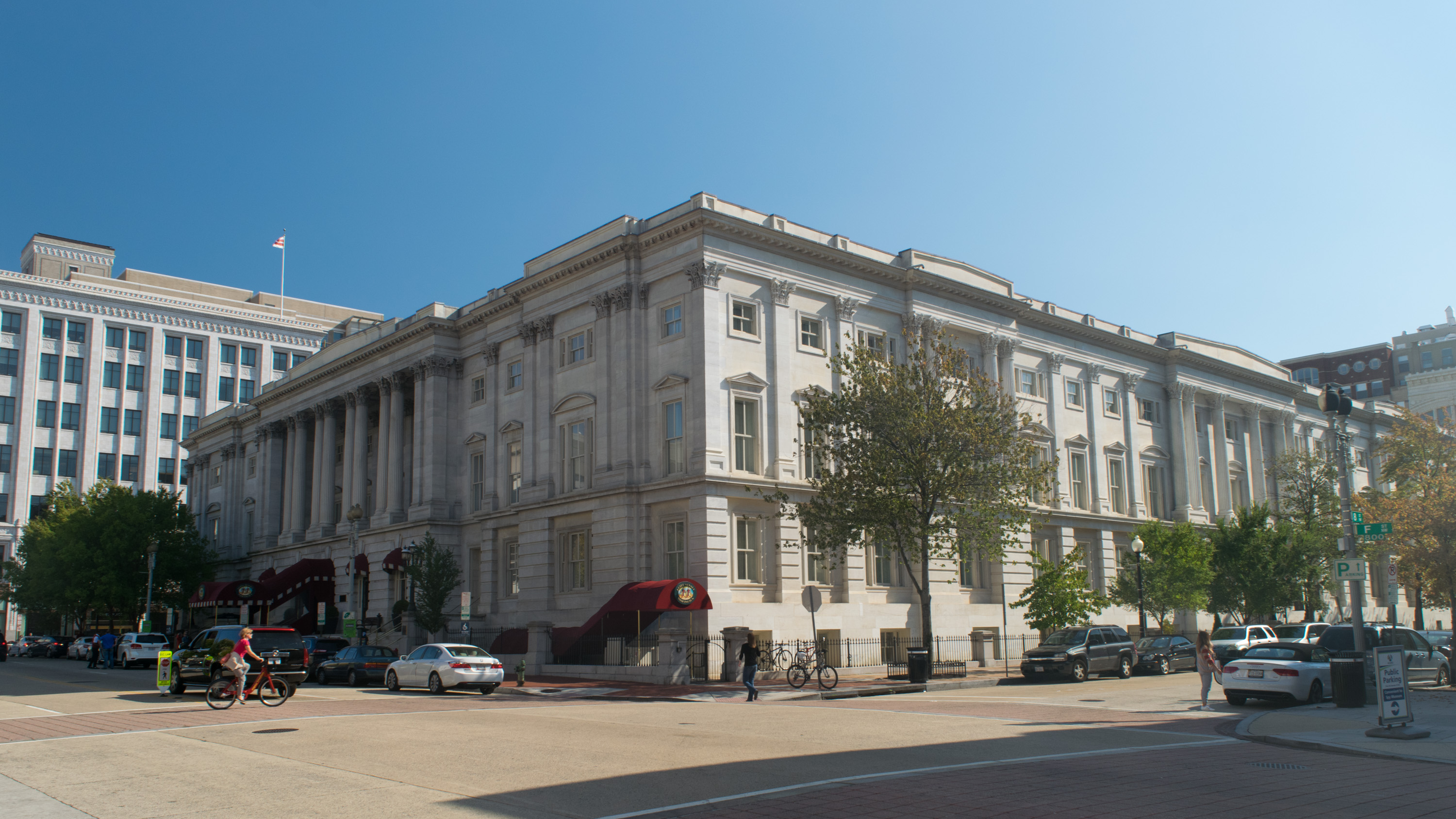 Hotel Monaco, formerly the General Post Office building, viewed from the northwest.